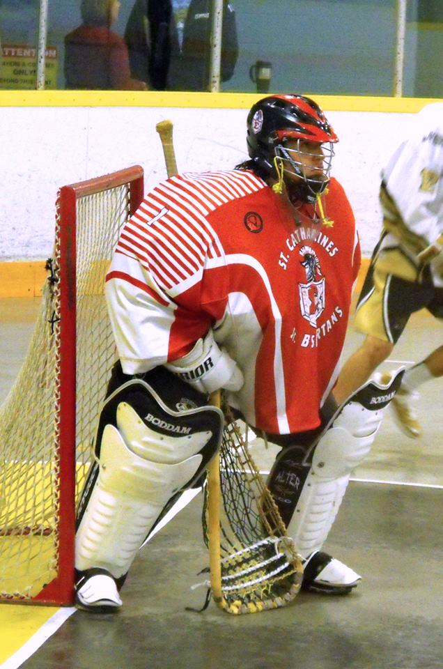 These images of Ontario Junior B Lacrosse Action action during the 2014 season are taken by Devan Mighton.